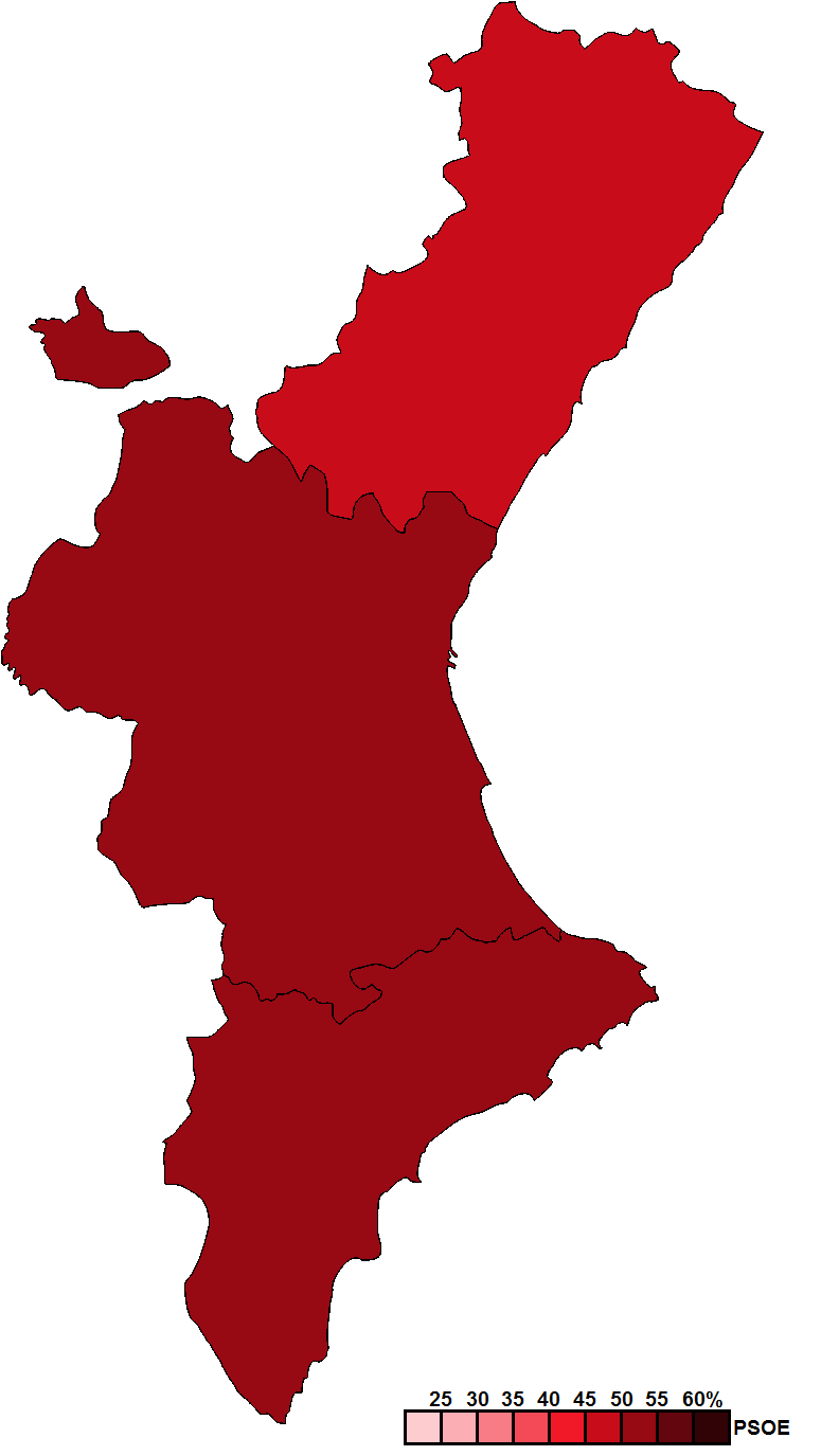 Provincial results for the 1983 Valencian regional election.